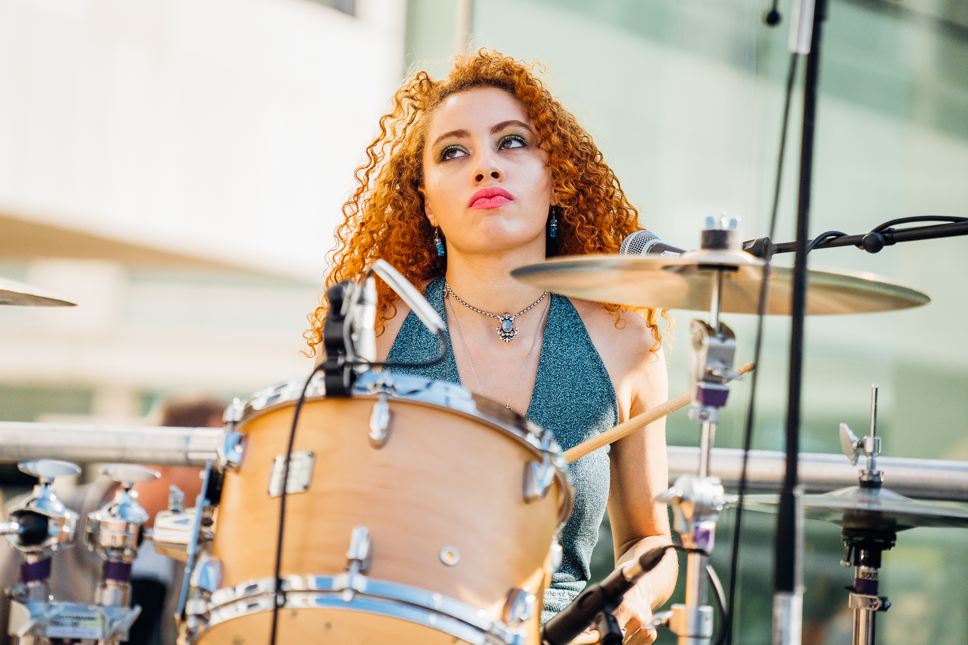 Meltdown Festival: Skinny Girl Diet